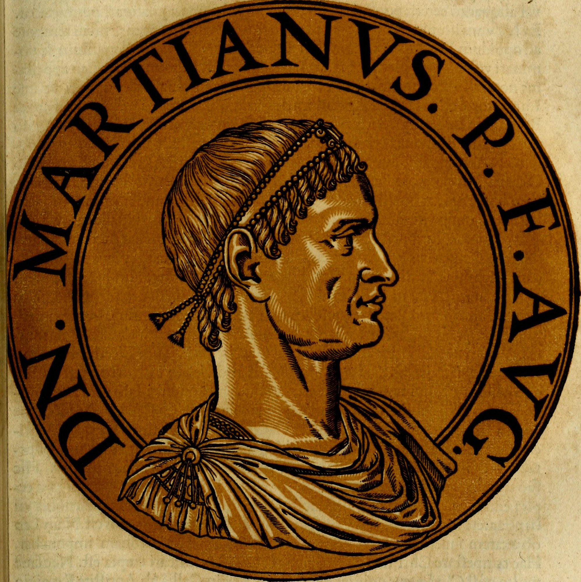 Title: Icones imperatorvm romanorvm, ex priscis numismatibus ad viuum delineatae, & breui narratione historicâ Year: 1645 (1640s) Authors: Goltzius, Hubert, 1526-1583 Gevaerts, Jean-Gaspard, 1593-1666 Rubens, Peter Paul, 1577-1640 Subjects: Emperors Emperors Numismatics, Roman Publisher: Antverpiae, Ex officina plantiniana Balthasaris Moreti Text Appearing Before Image: ingentem hominum multitudinem Romam conuehebat,vti Vrbem inftauraret.Poftea verd Vandali cum Rege Genferico ex Africa magno impetu in Italiam profedi funt.Qua re territus Maximuscum optimis quibufqj potentiffimifqj fugere conatus.in ipsa fugaoccifus eft:atque omnes fere ex Vrbe fuerunt profligati. Vandali Romam inuaferunt,qusequc• poterant diripueruht, homines captiuos abduxerunt; & quidquid inftaurare cceptum fuit,deiecerunt-Hactempeftate etia Marti anvs Conftantinopoli in feditione fuit interemptus. 173 LXXXVL QVAMDIV PACATE VIVERE LICET,NONESTPRINCIPI DECORVM VT ARMA SVMAT. Text Appearing After Image: Vna cum Valentiniano v. annis, fblus IL Orientem rexit: a tumultuarijs occifiis. Y 3